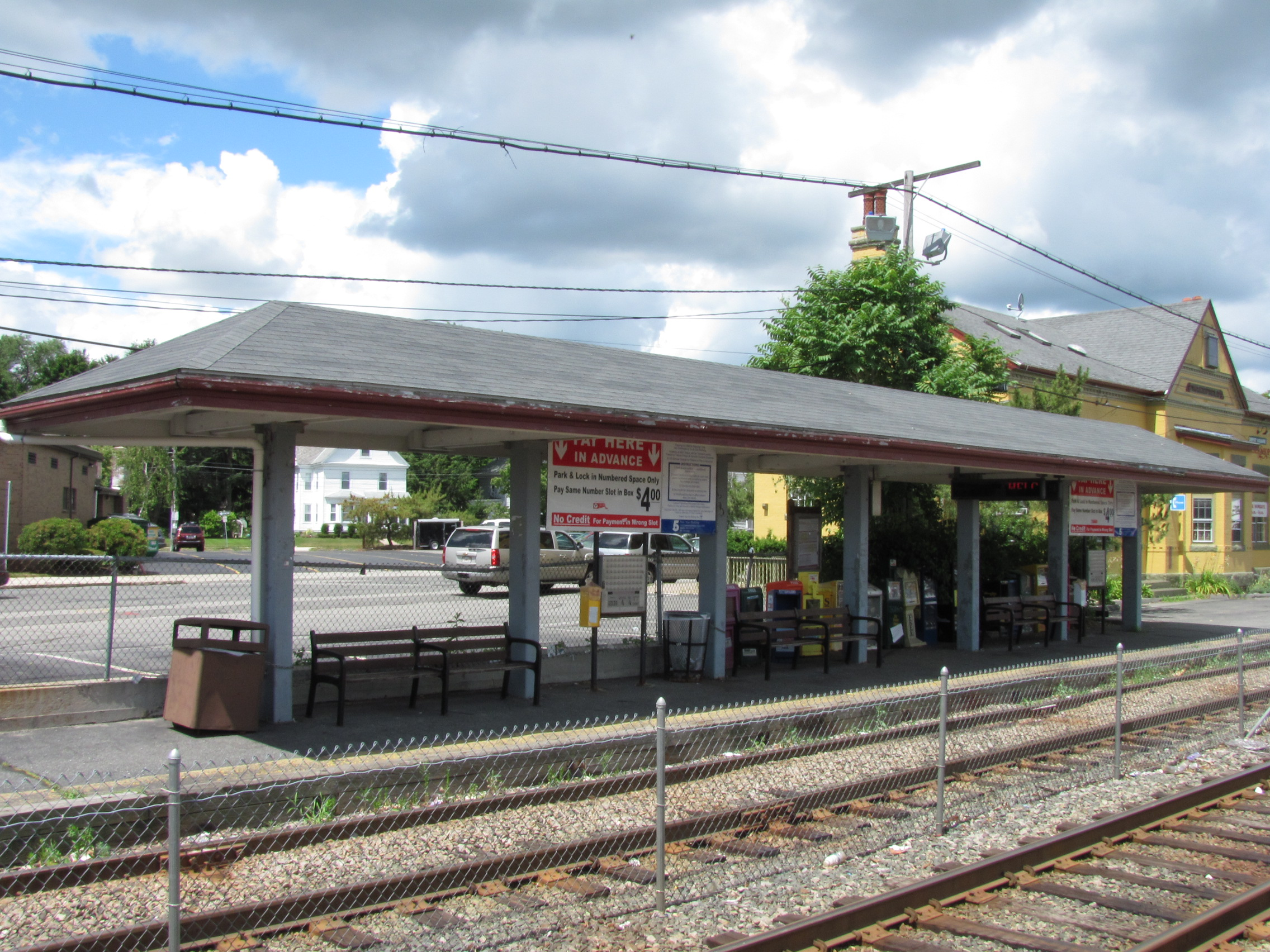 Wakefield MBTA Stop, Wakefield Massachusetts